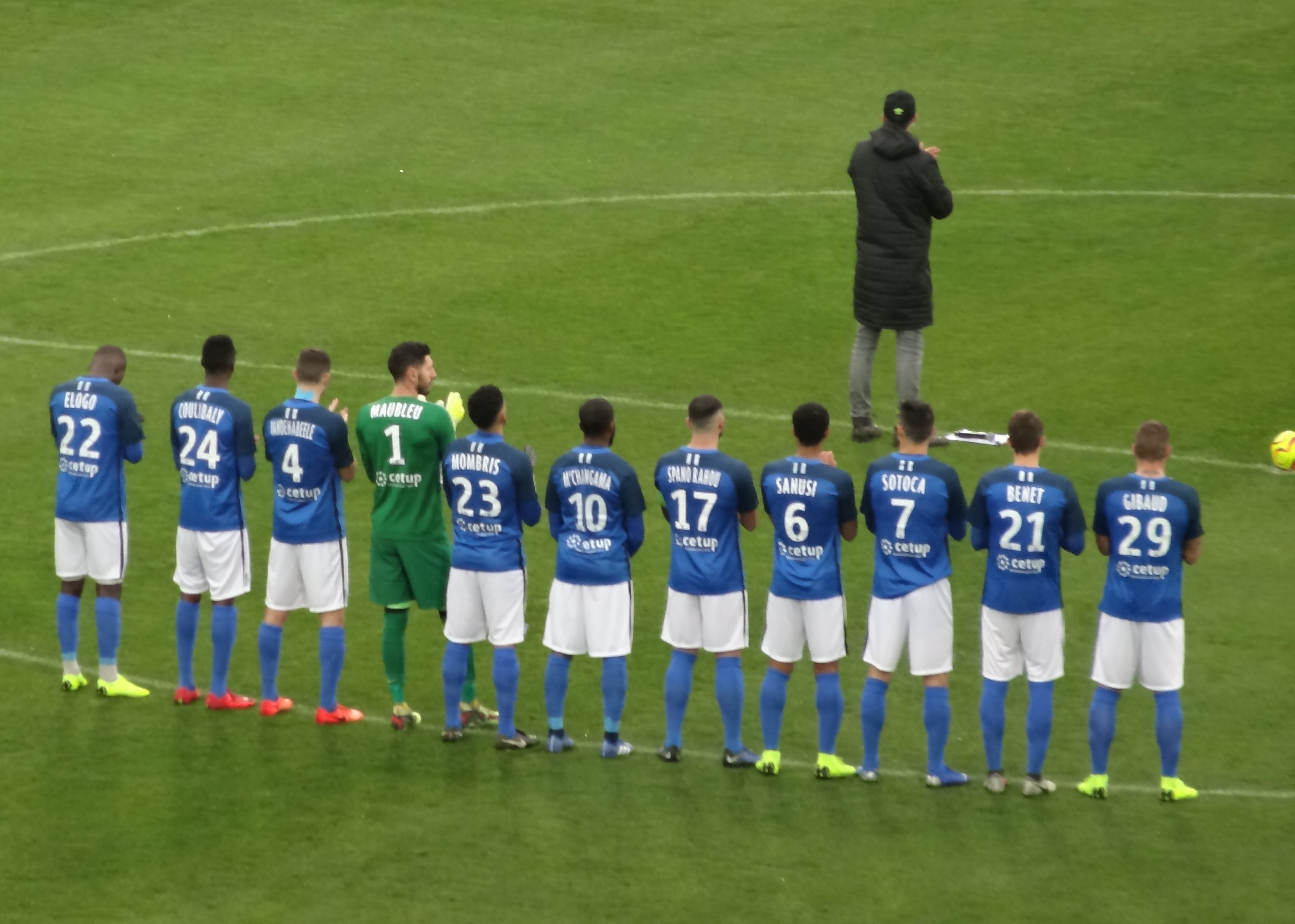 Grenoble 2018-2019